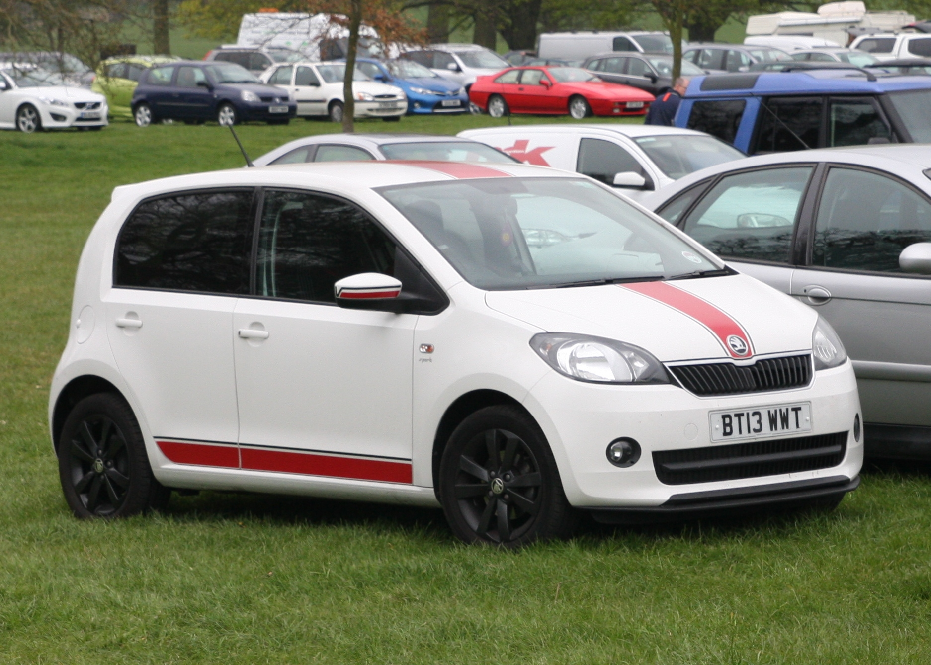 Škoda Citigo (2013)